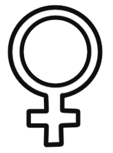 Female symbol. See also Image:Male.svg.